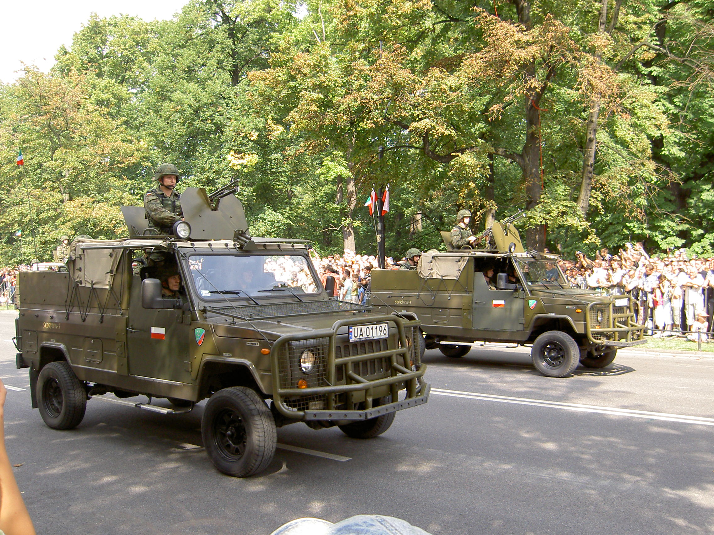 Skorpion vehicle of the Polish Army